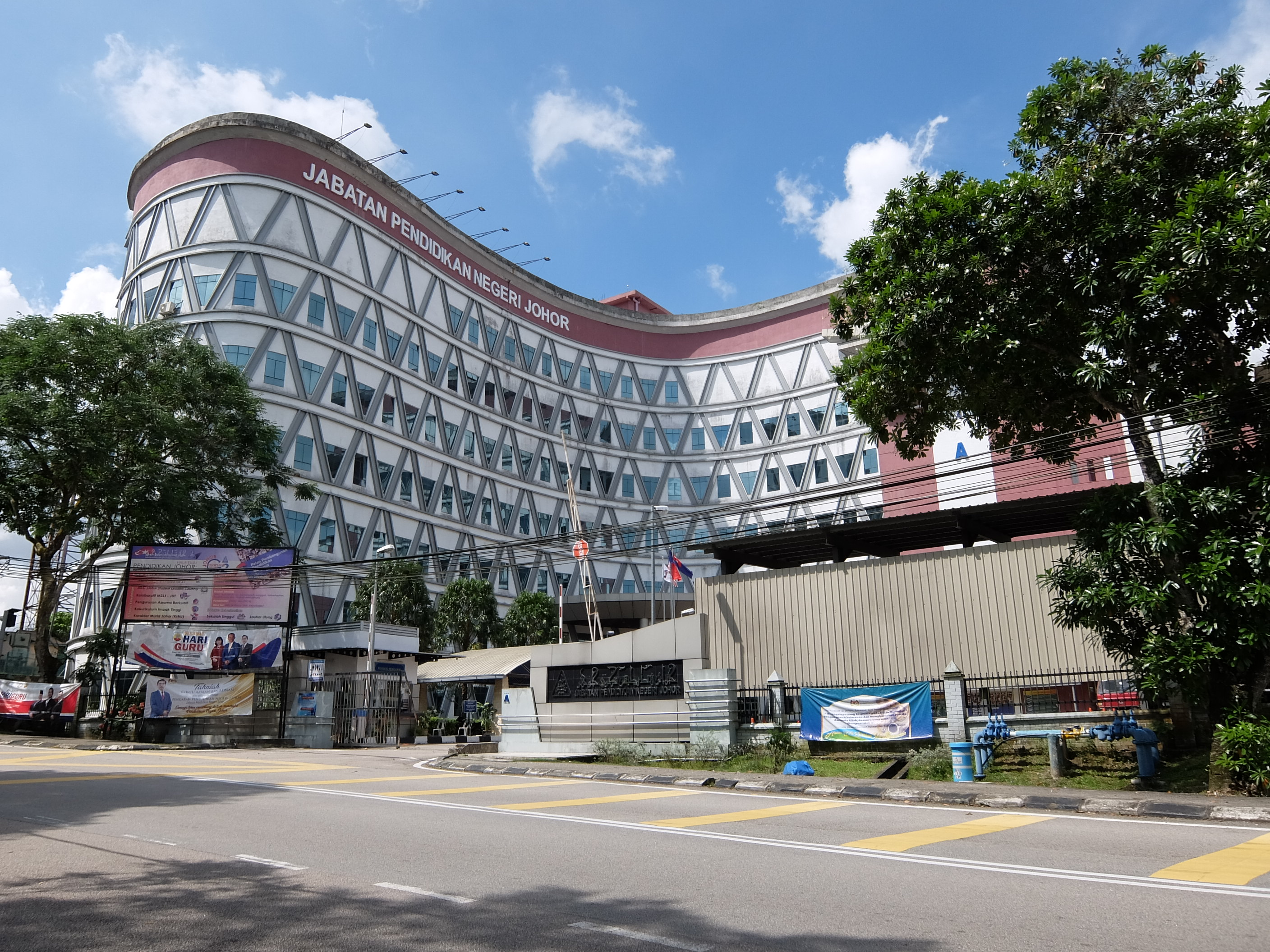 Johor State Education Office, Johor Bahru, Johor, Malaysia